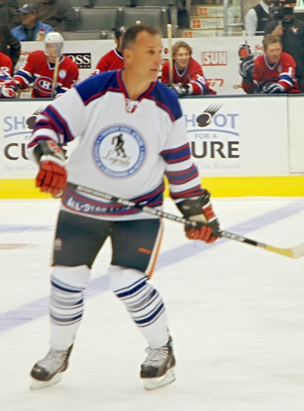 Paul Coffey played with the All-Star Legends 2008 in Toronto